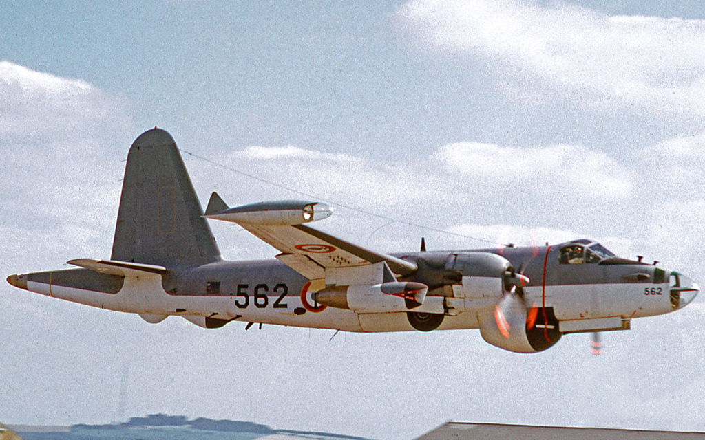 Lockheed SP-2H Neptune of 25 Flotille Aeronavale France at RAF Greenham Common